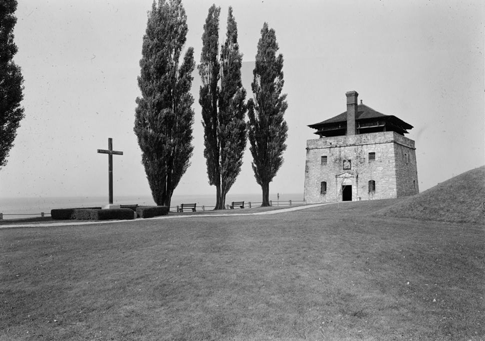 Father Millet Cross and East Gun Tower [or "North Redoubt"] at Fort Niagara in Youngstown, Niagara County, New York, USA. Lake Ontario is in the background. The cross site was set aside as a national monument in 1925. Cross erected by the Knights of Columbus in 1926. Transfered to Fort Niagara State Park in 1949. Image courtesy of Historic American Buildings Survey—HABS.